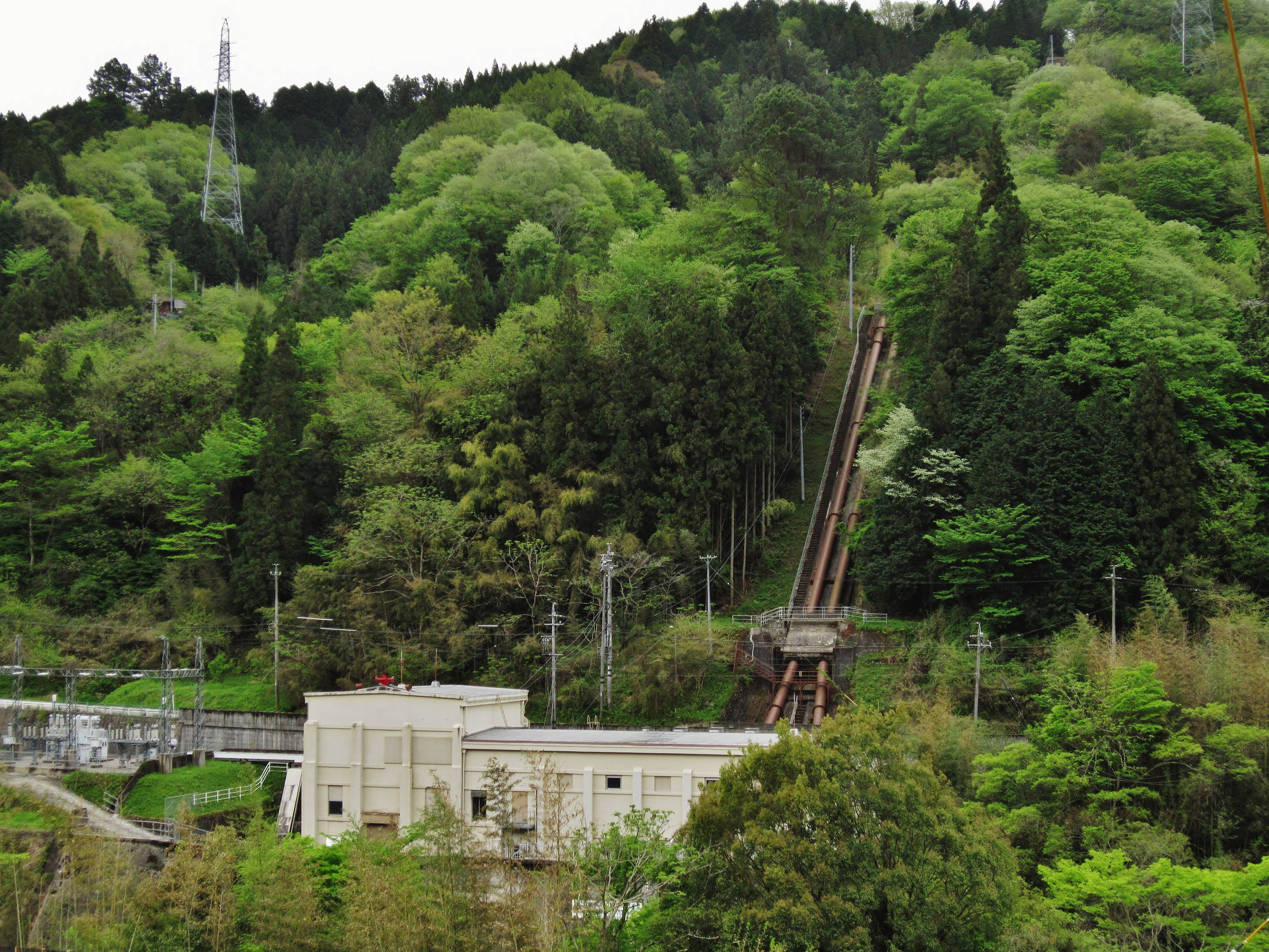 Mayumi power station.